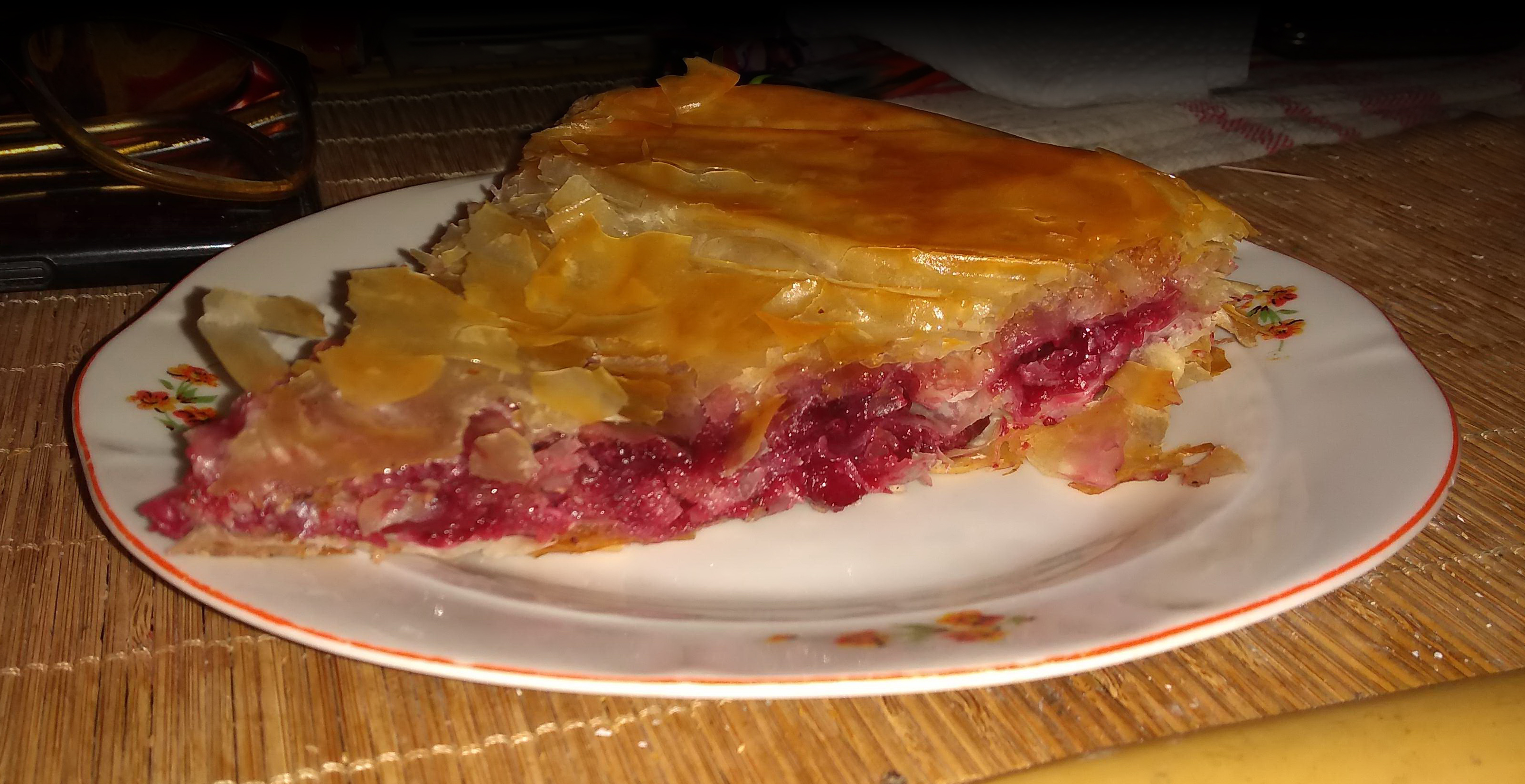 Homemade Serbian pie (burek) with cherries - preparation